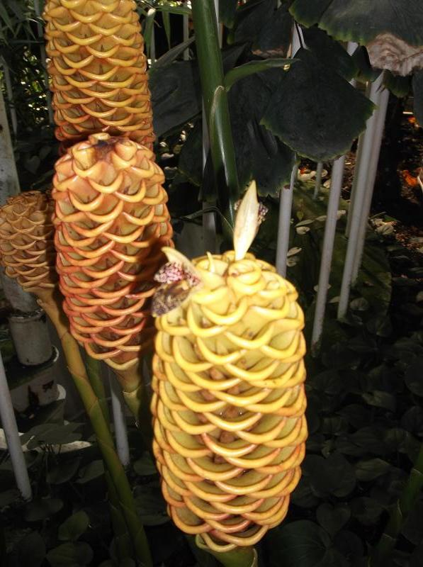 Zingiber spectabile Griff. in Kew Gardens, England.